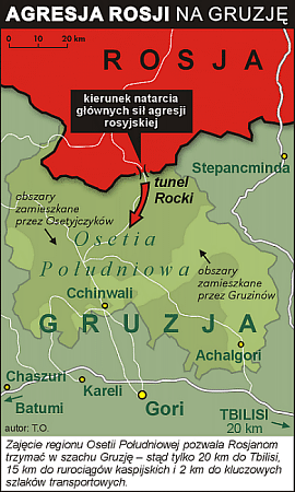 Strategic location of South Ossetia